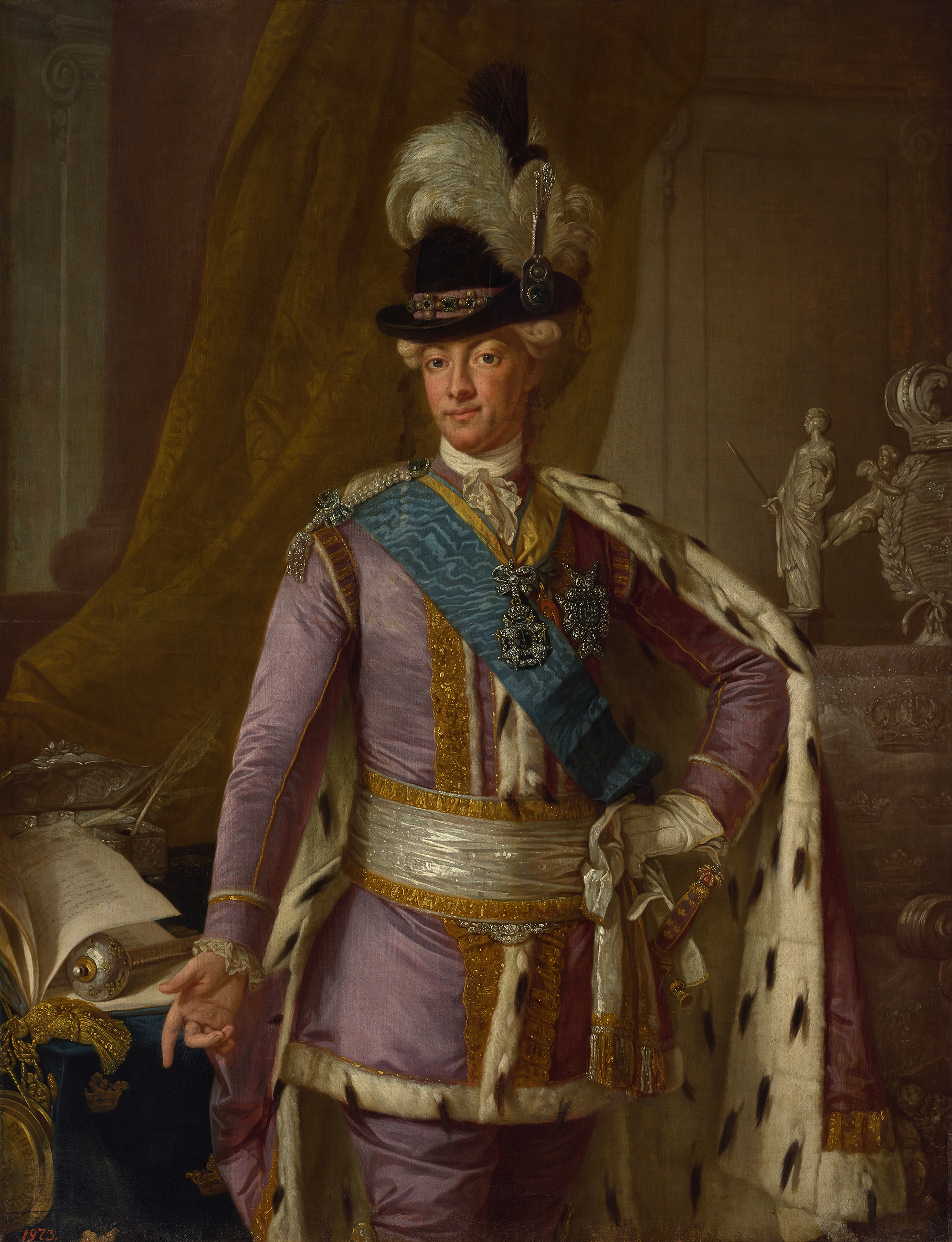 Gustav III (1746-1792), King of Sweden (1771-1792), 1779